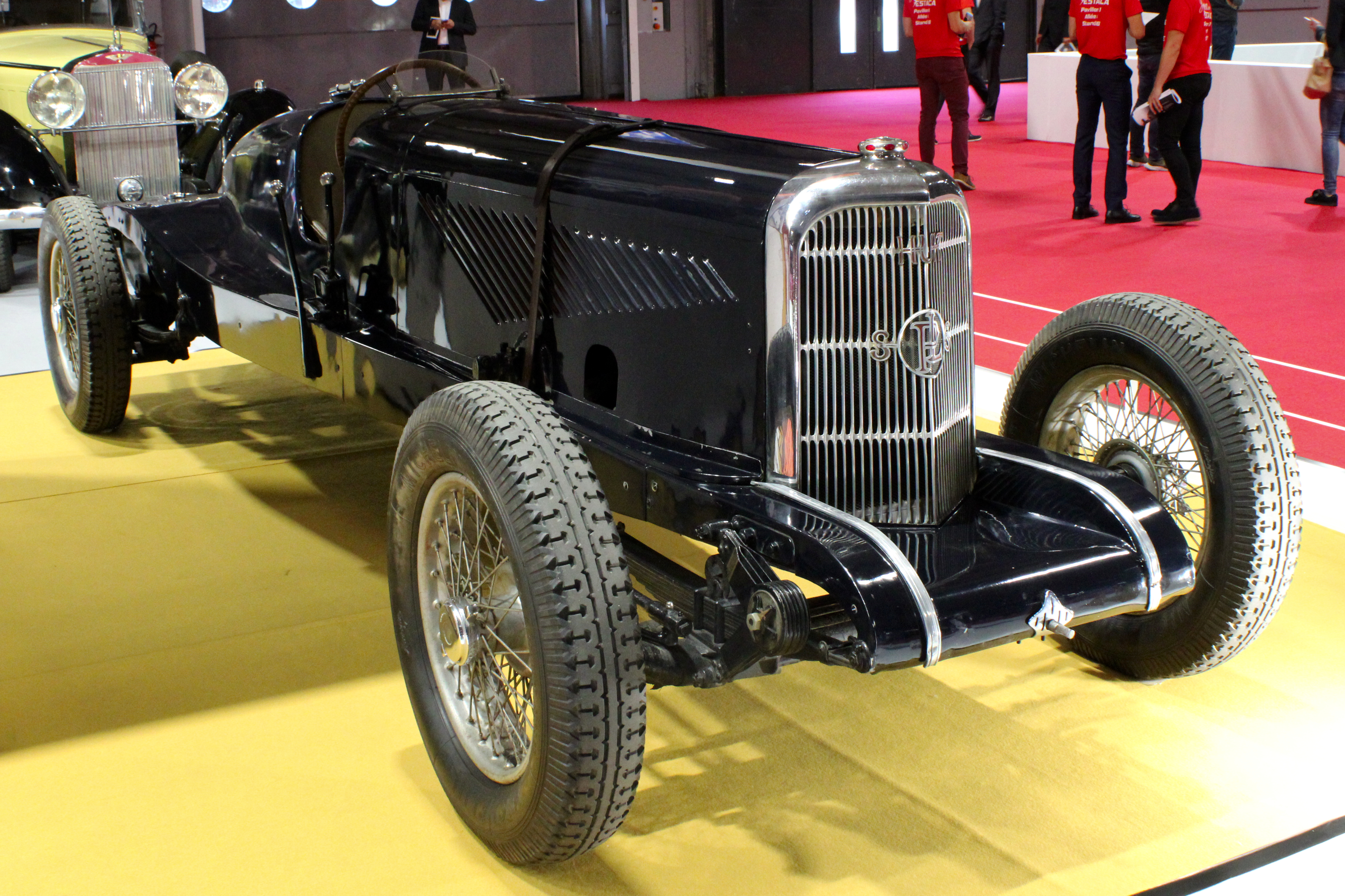 Panhard Levassor 35 CV (1926) at Paris Motor Show 2018